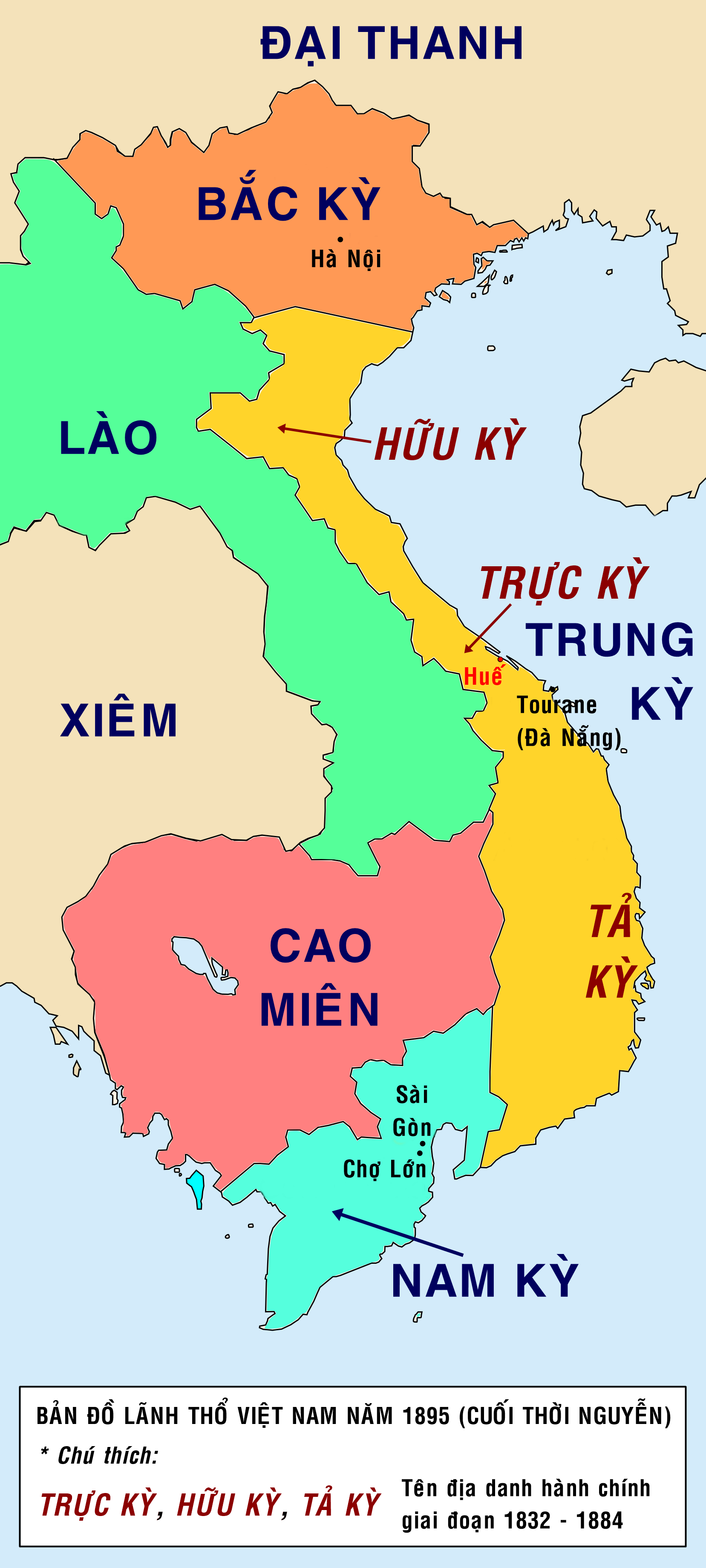 Map of Vietnam in 1895, late Nguyễn dynasty.